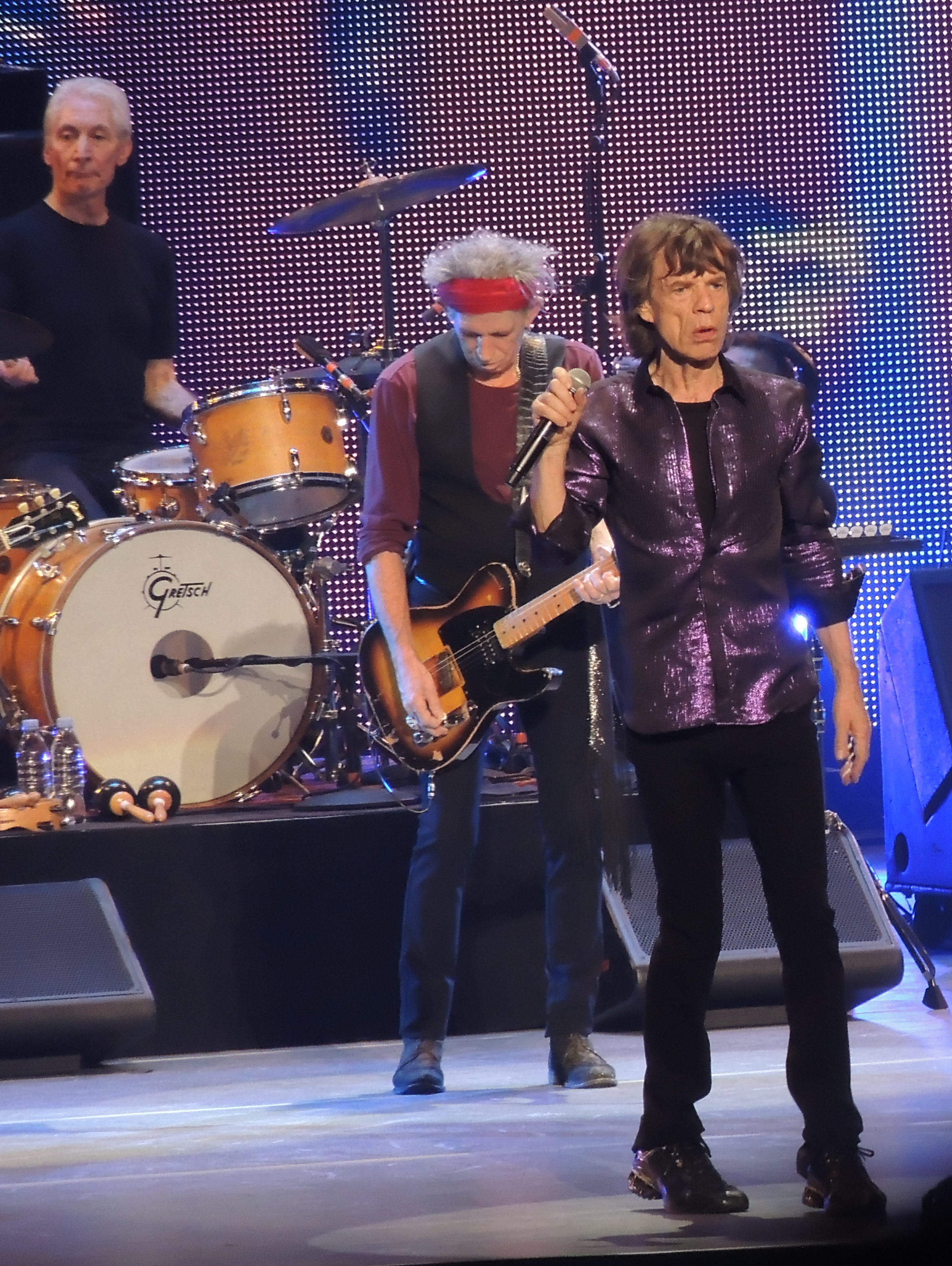 The Rolling Stones at the Prudential Center on 2012-12-13